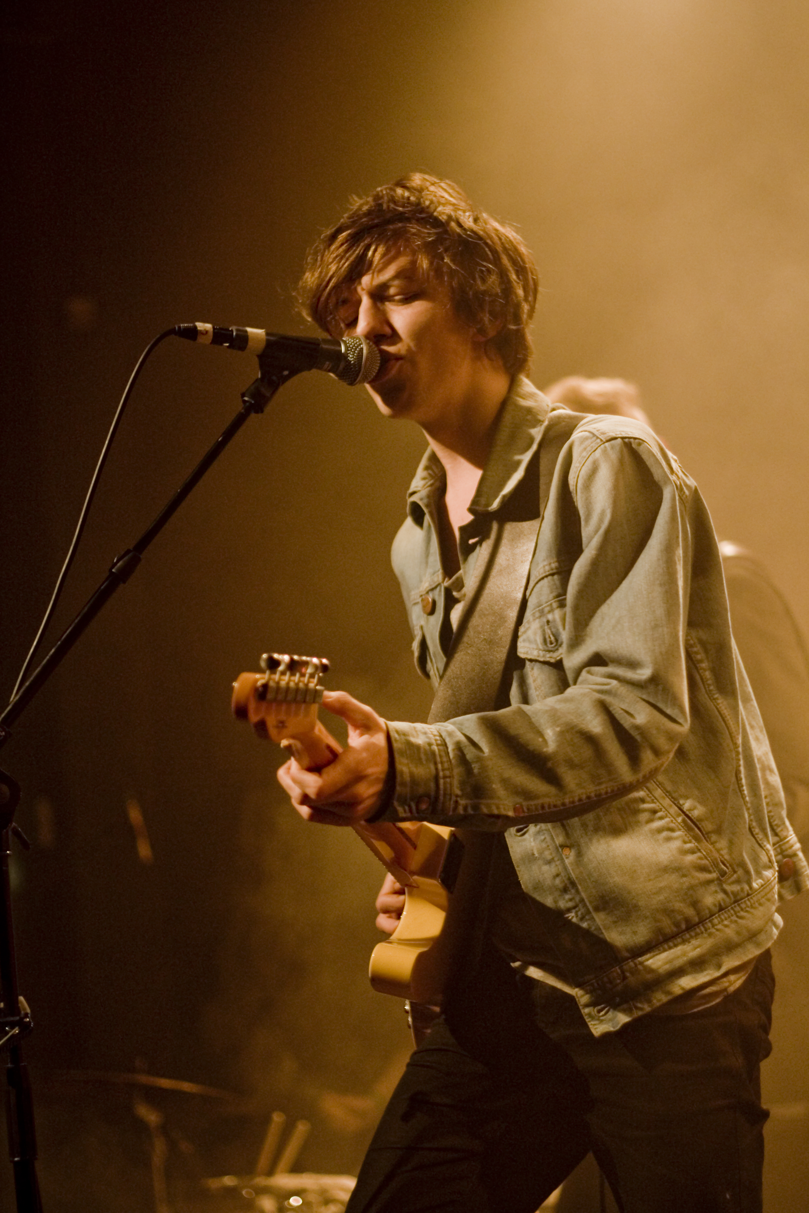 Lead singer Carl Emil Petersen from the Danish band Ulige numre